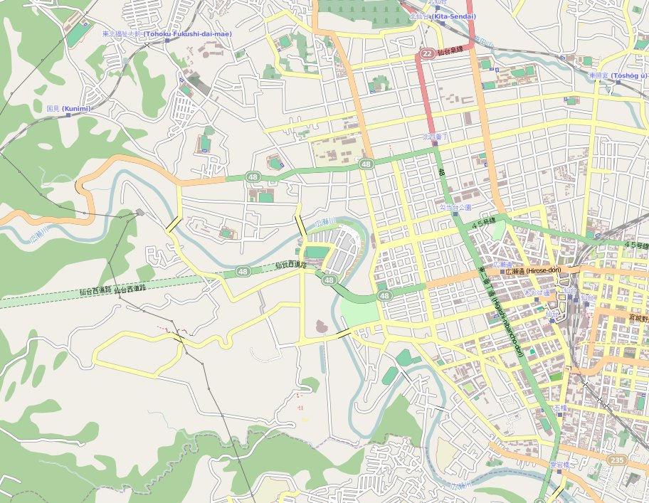 Map of Sendai, Miyagi-ken, Japan